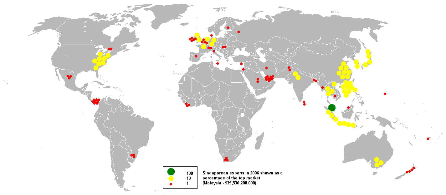 This bubble map shows the global distribution of Singaporean exports in 2006 as a percentage of the top market (Malaysia - $35,536,200,000). This map is consistent with incomplete set of data too as long as the top producer is known. It resolves the accessibility issues faced by colour-coded maps that may not be properly rendered in old computer screens.